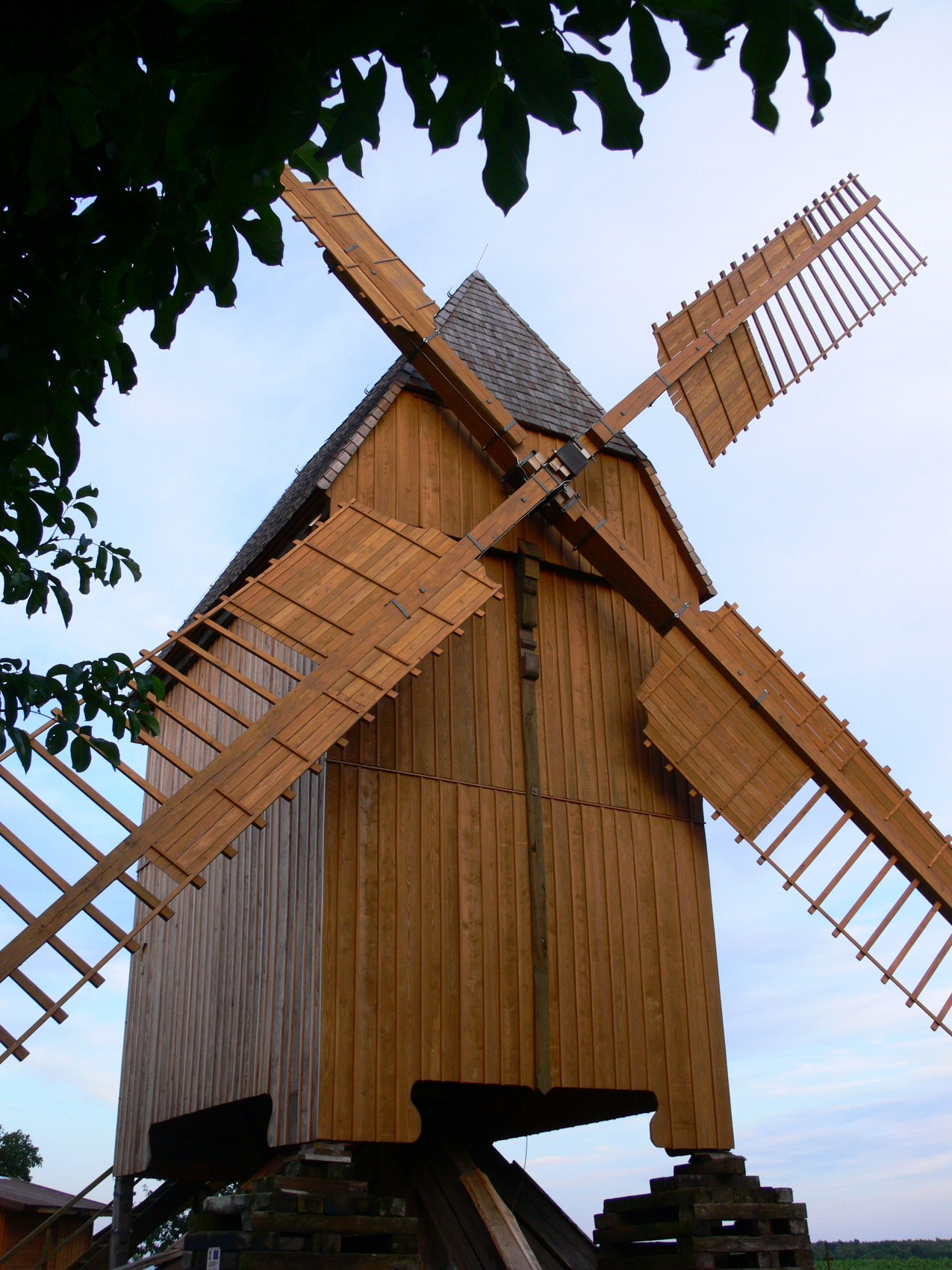 Windmill in Lumpzig, Thuringia, Germany